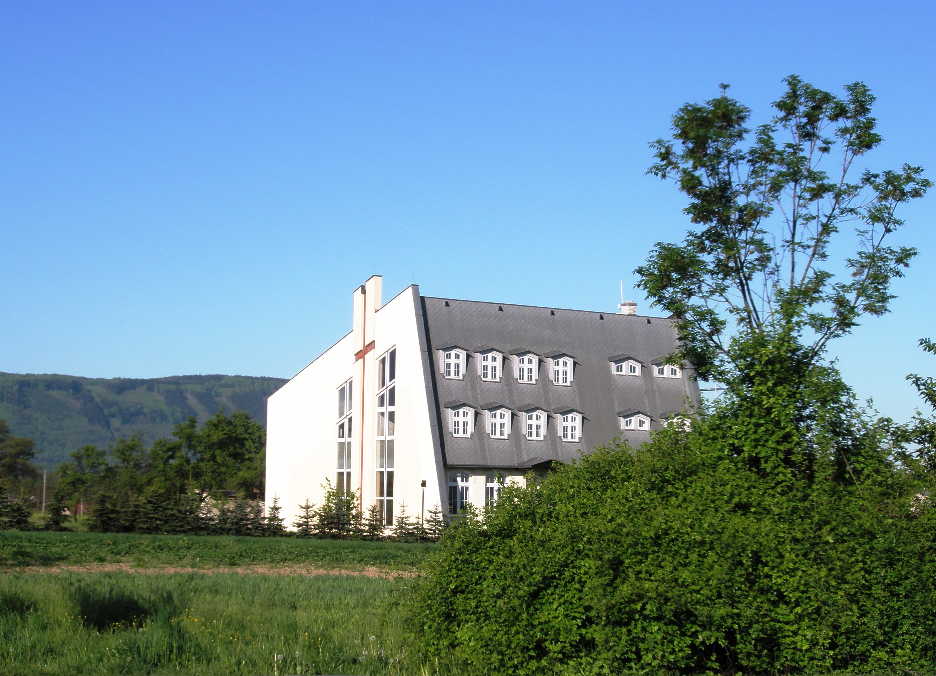 Lutheran Church in Třinec-Nebory (Frýdek-Místek District, Czech republic)